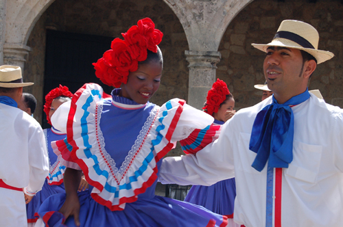 Dominican merengue dancing